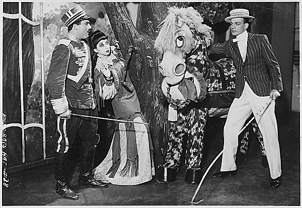 WPA Federal Theater Project in New York: "Horse Eats Hat": with Joseph Cotten. (48491(84), 00/00/1935, 27-0471a.gif)